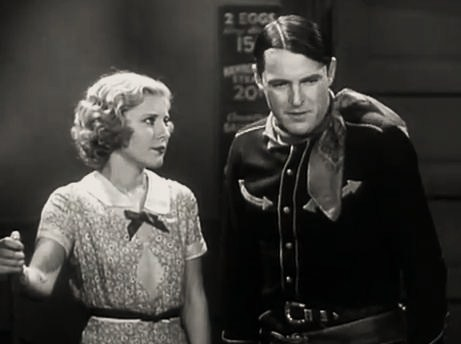 Frances Lee and Ken Maynard in Phantom Thunderbolt (1933) - cropped screenshot